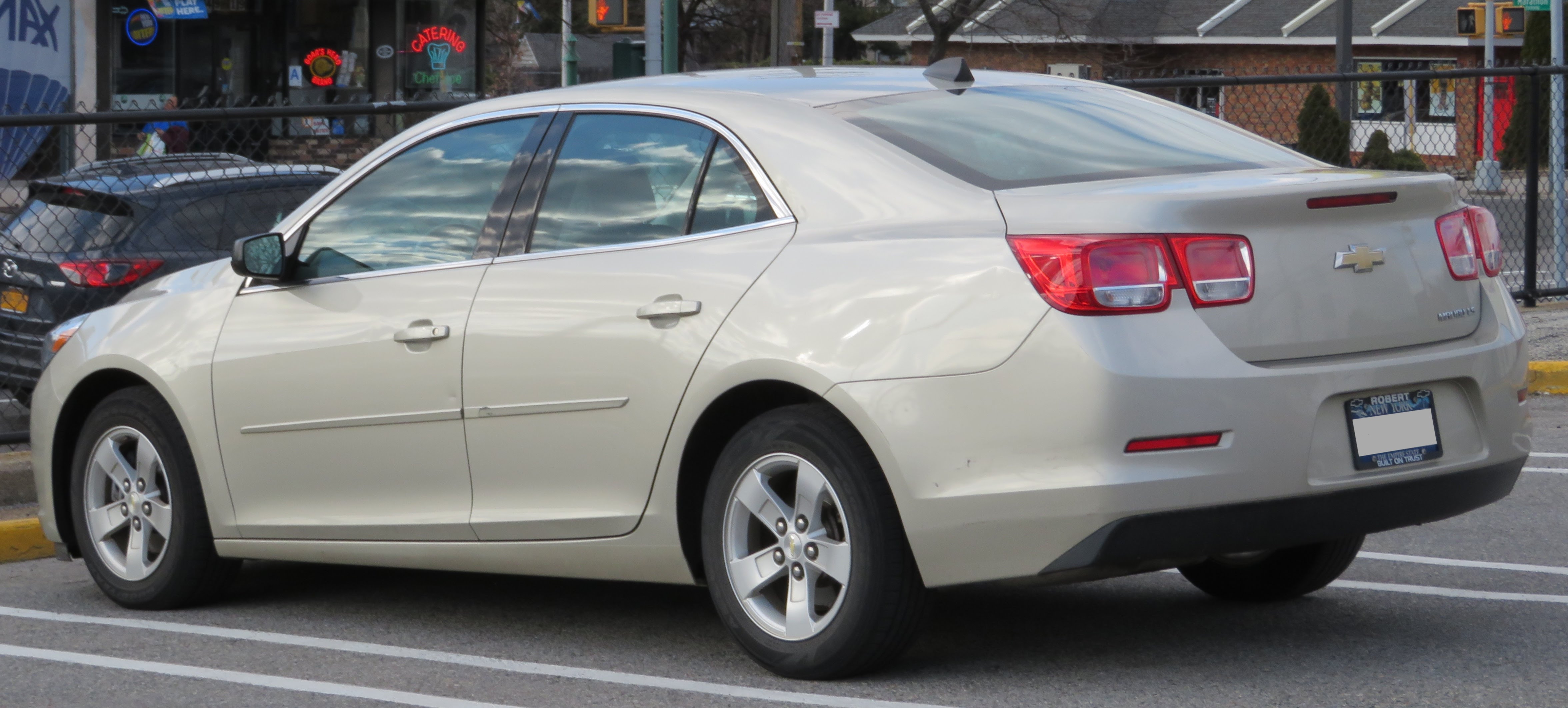 In Queens, New York